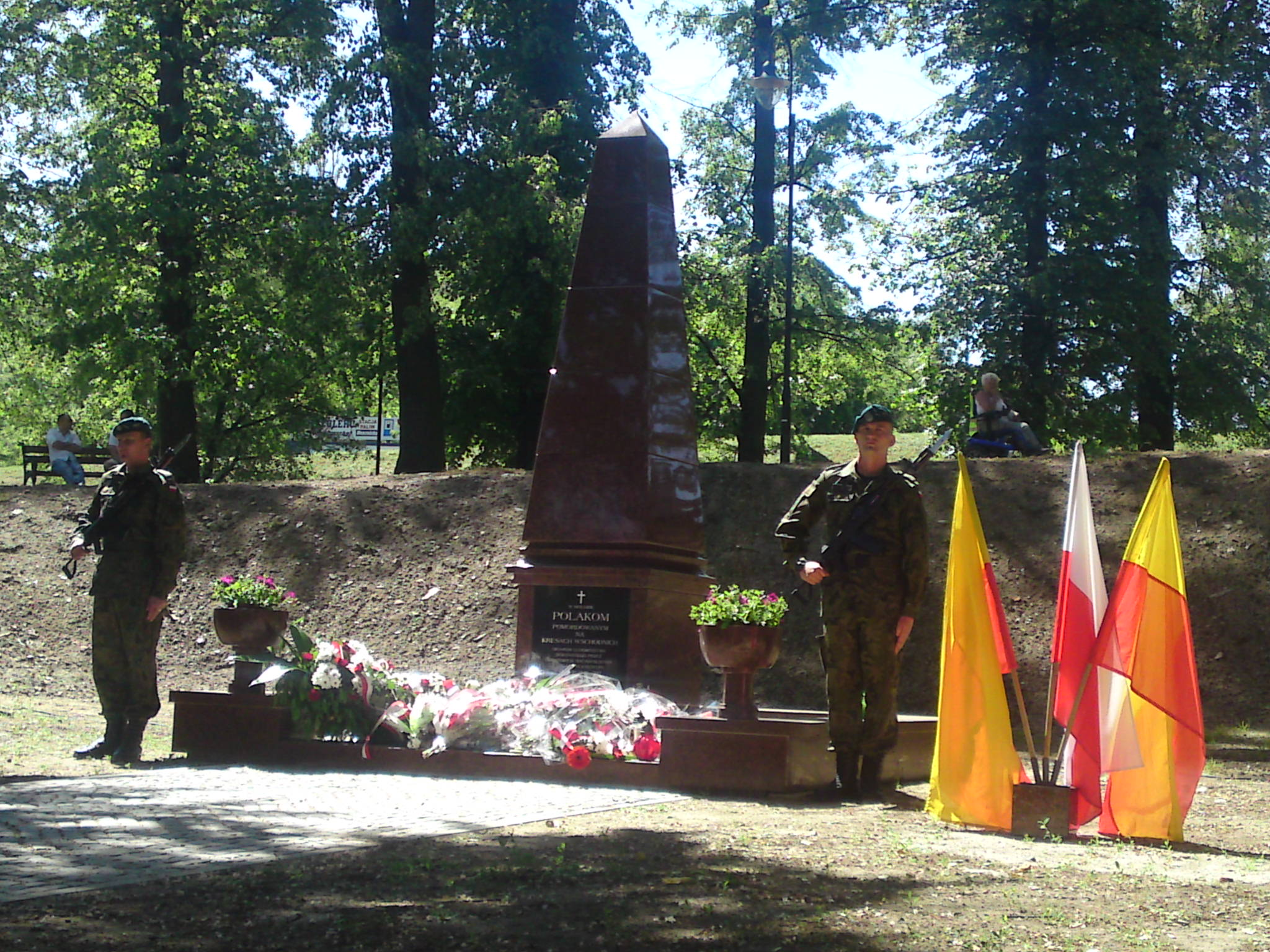 OUN-UPA victims'monument in Kłodzko (Poland)